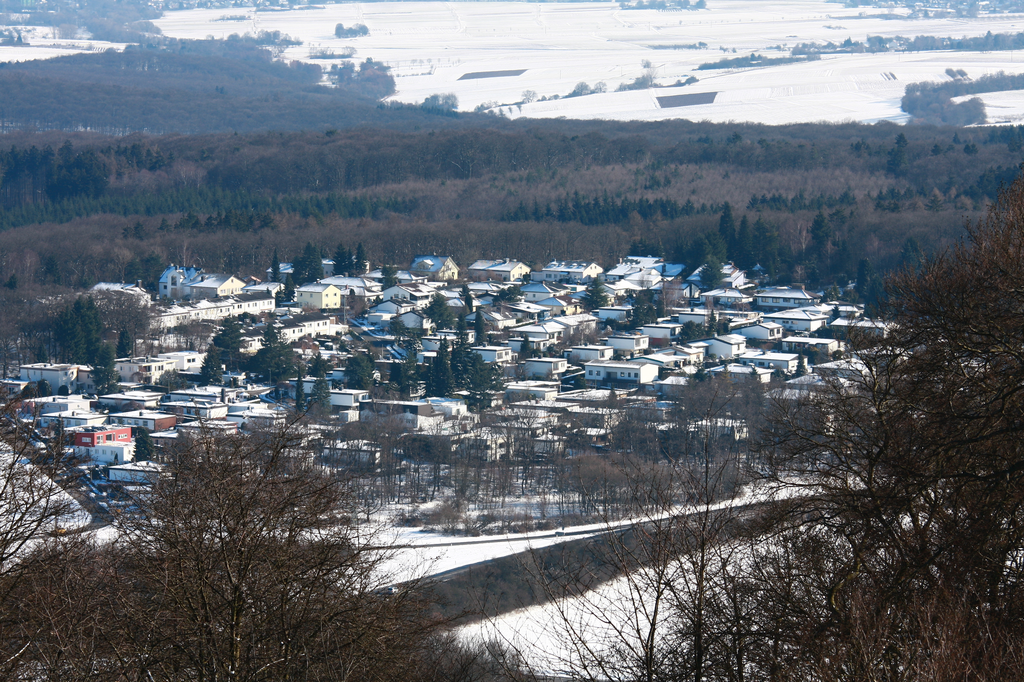 Wiesbaden-Naurod (Erbsenacker), picture taken atop the view-point on the Hessian Mountain Kellerskopf in the Taunus mountain range